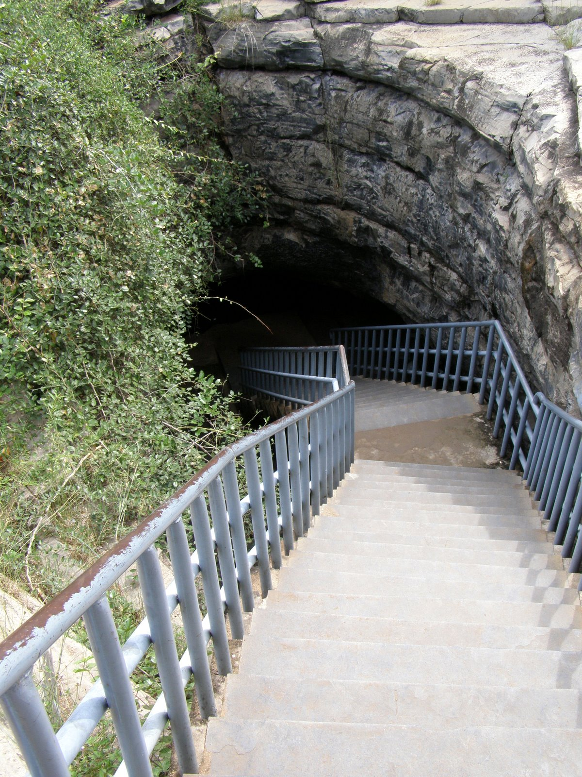 Entrance to Belum caves, Kurnool dist, Andhra Pradesh, India